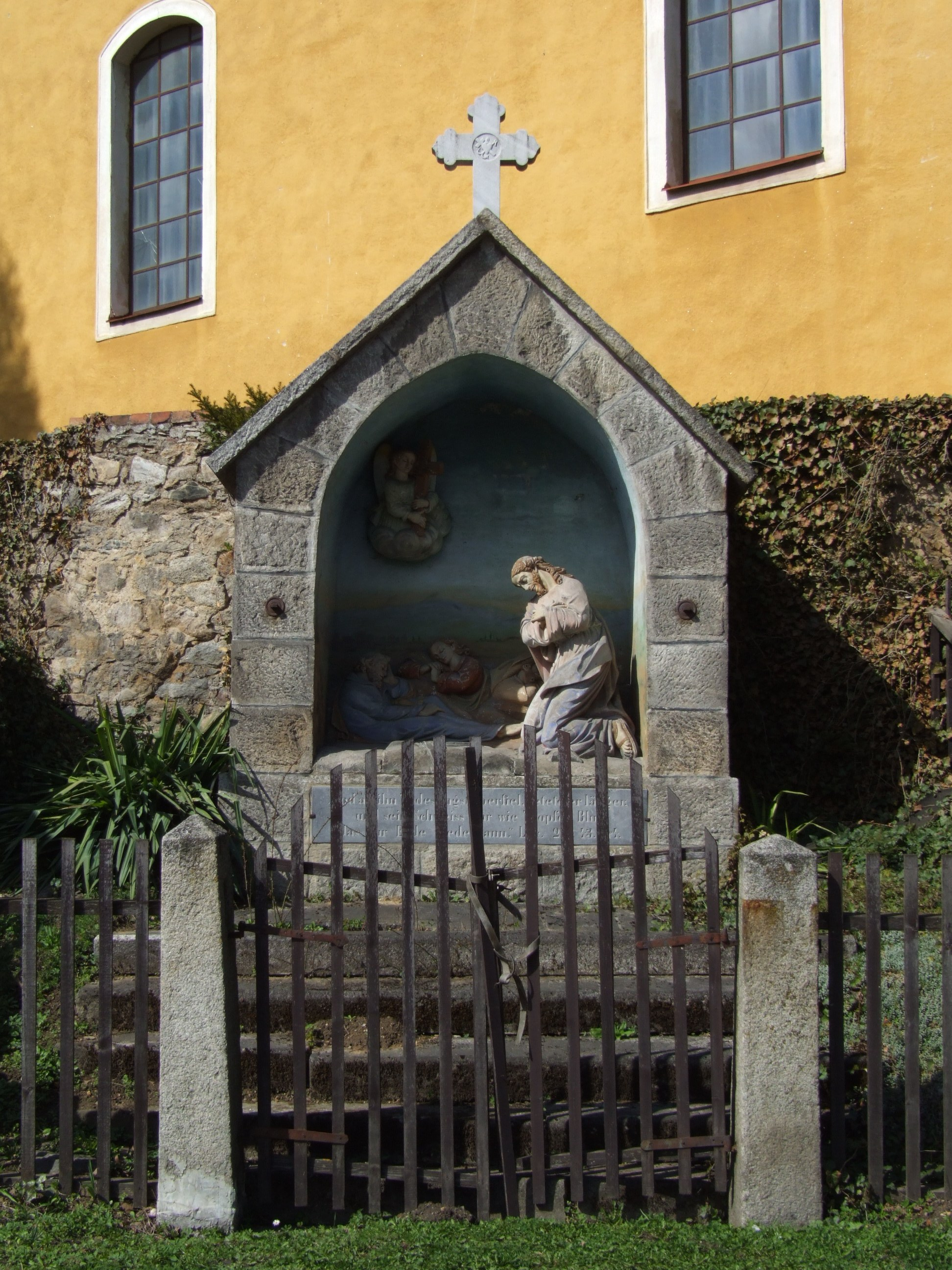 Vlčice (Wildschütz) - chapel near church